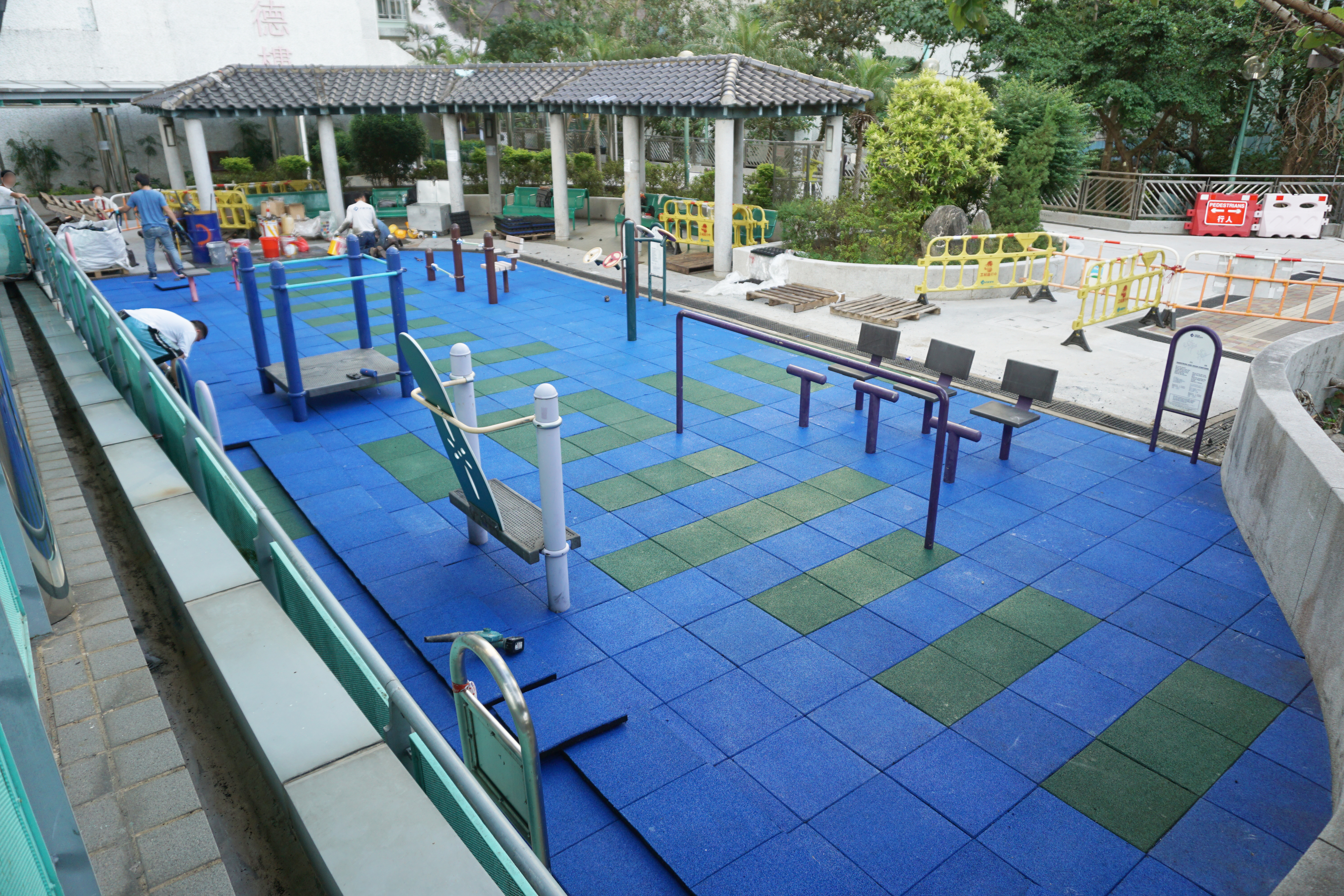 Tsz Ching Estate in Tsz Wan Shan, Hong Kong.